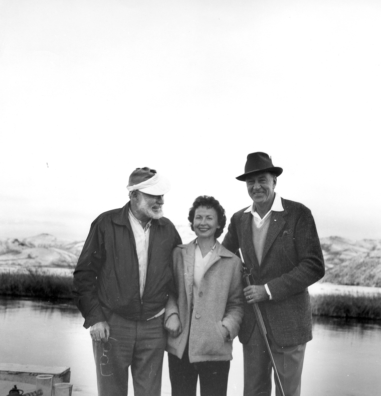 EH 2279S Ernest Hemingway, Clara Spiegel, and Gary Cooper, Silver Creek, Idaho, January 1959. Photograph in the Ernest Hemingway Photograph Collection, John F. Kennedy Presidential Library and Museum, Boston.